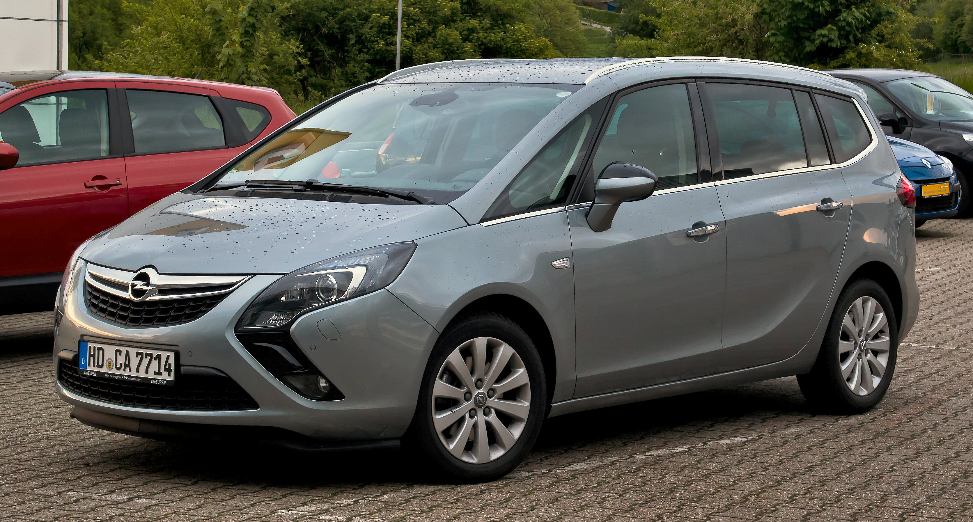 Opel Zafira Tourer 2.0 CDTI Innovation (C)